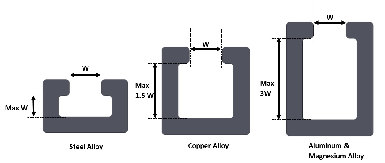 This figure compares the maximum depth of Indentation in metal extrusion process for Steel, Copper and Aluminium and Magnesium Alloys